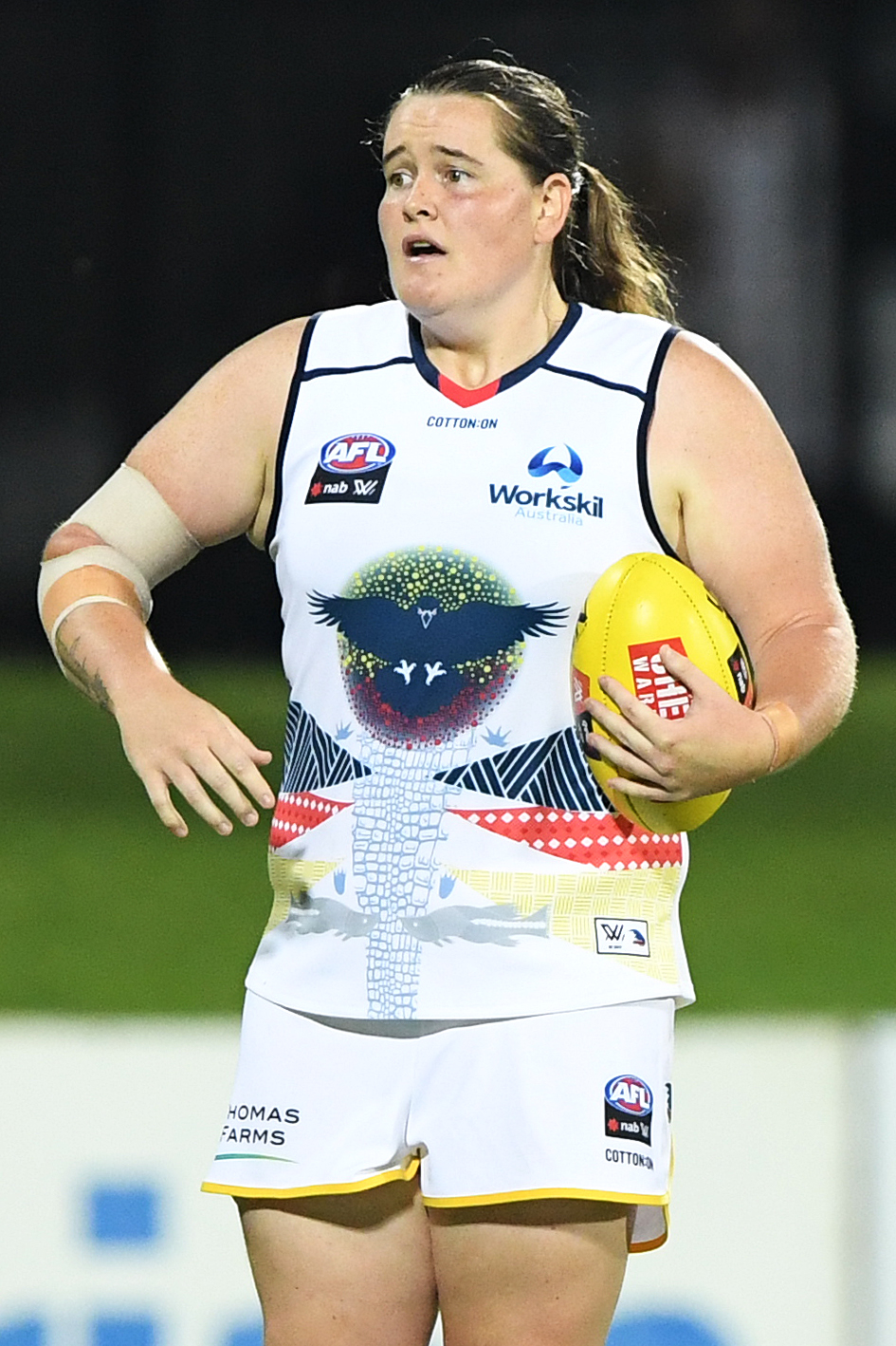 Sarah Perkins of Adelaide during the 2019 AFL Women's practice match between the Adelaide Football Club and Fremantle Football Club at TIO Stadium on January 19, 2019 in Darwin Australia.